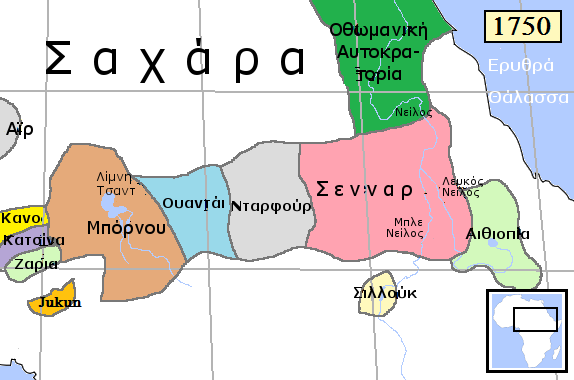 Χάρτης της Κεντρικής Ανατολικής Αφρικής το 1750 μ.Χ.